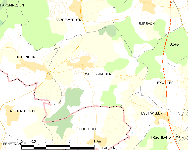 Map of French municipality